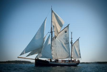 Sail training ship S/V Ariel (SGUB) under sail.